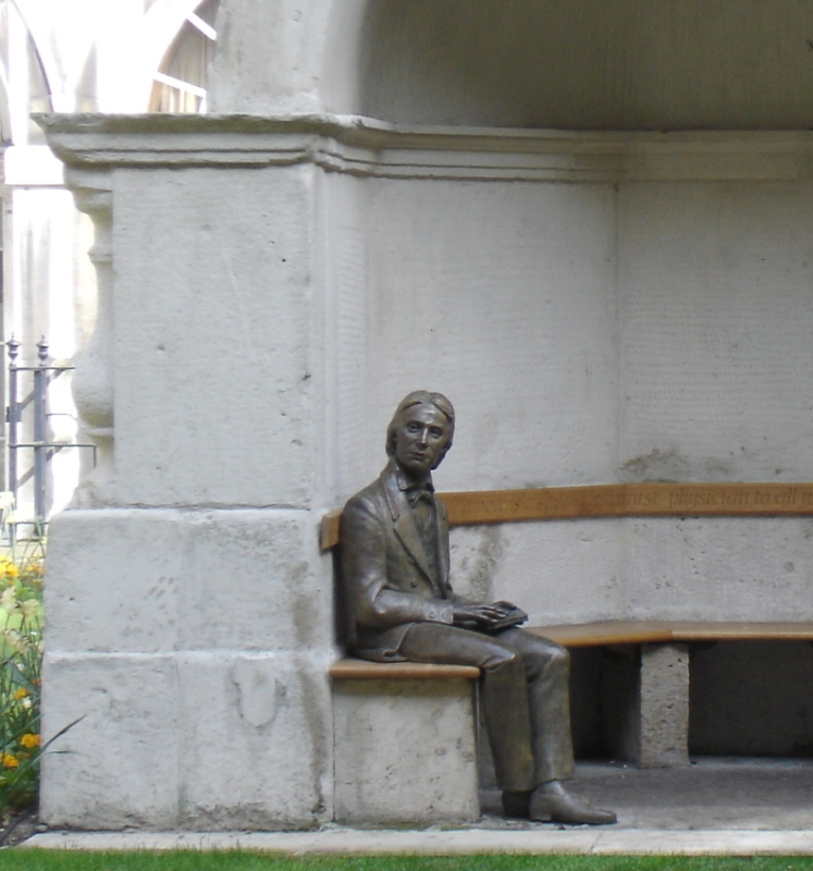 Statue Of John Keats-Guys Hospital-London by Sculptor Stuart Williamson, Fellow of the Royal British Society of Sculptors, SPS and NSS